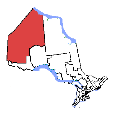 Map of the Kenora electoral district. Based on Earl Andrew's maps, created by SimonP.